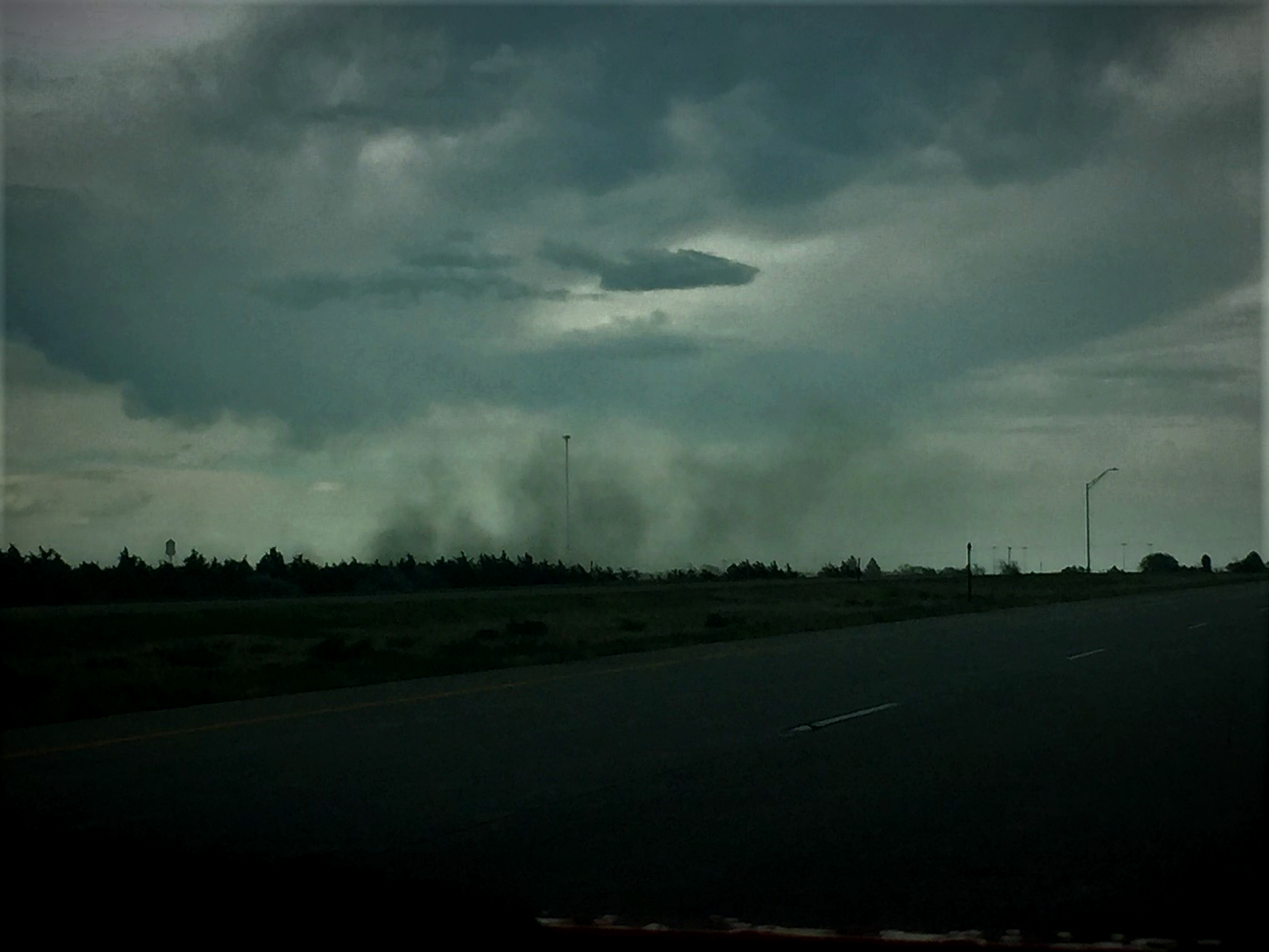 A gustnado on May 7th, 2017 in Eastern Colorado.